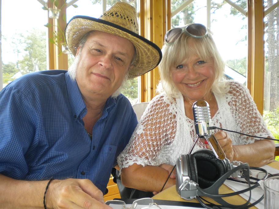 Director Lars Jacob and actress Christina Schollin after a recording session at her residencePlace: Gustafsberg, Sweden